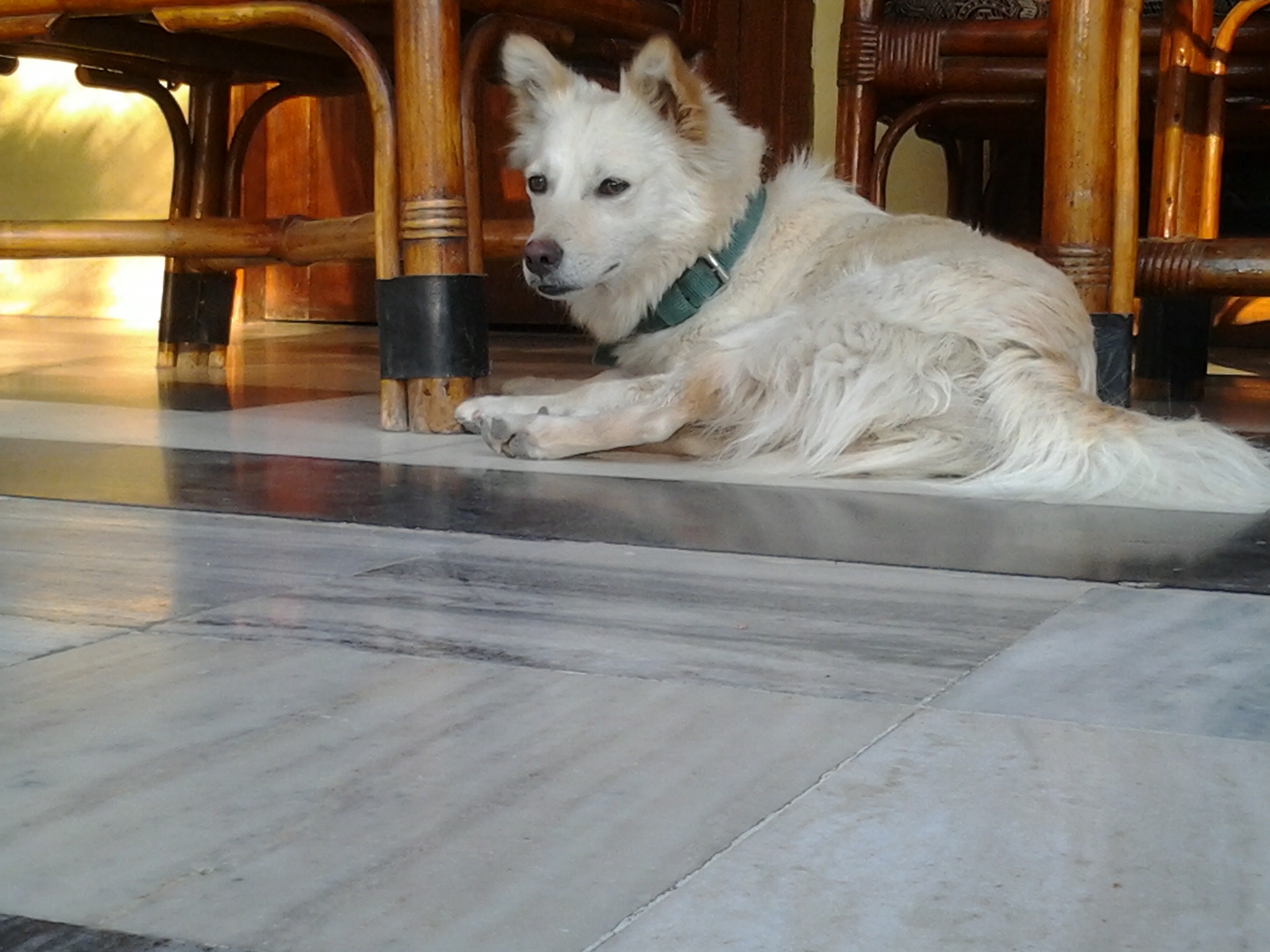 An Indian Spitz breed (female)